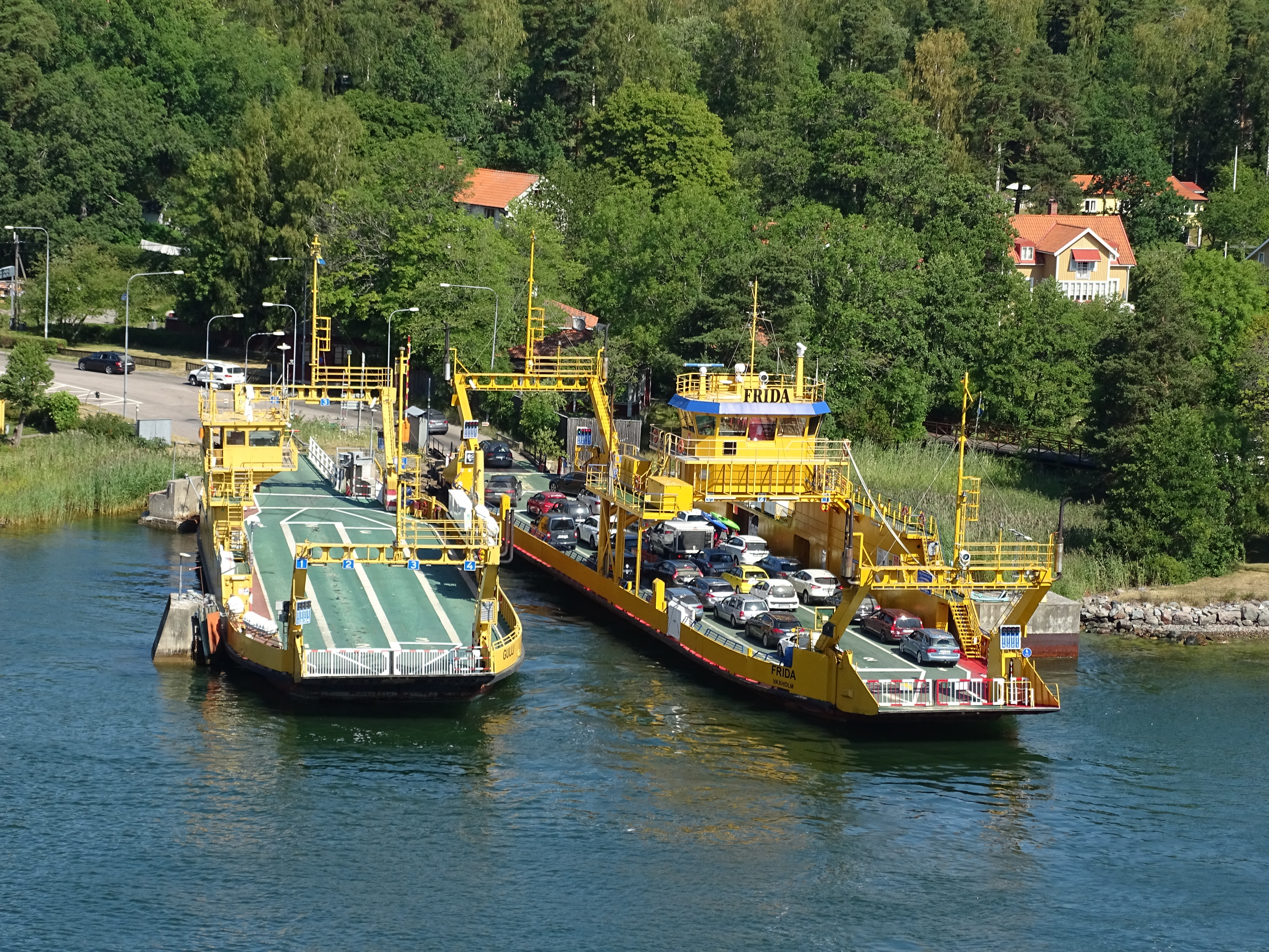 The Trafikverket ferry between Yxlan and Furusund.